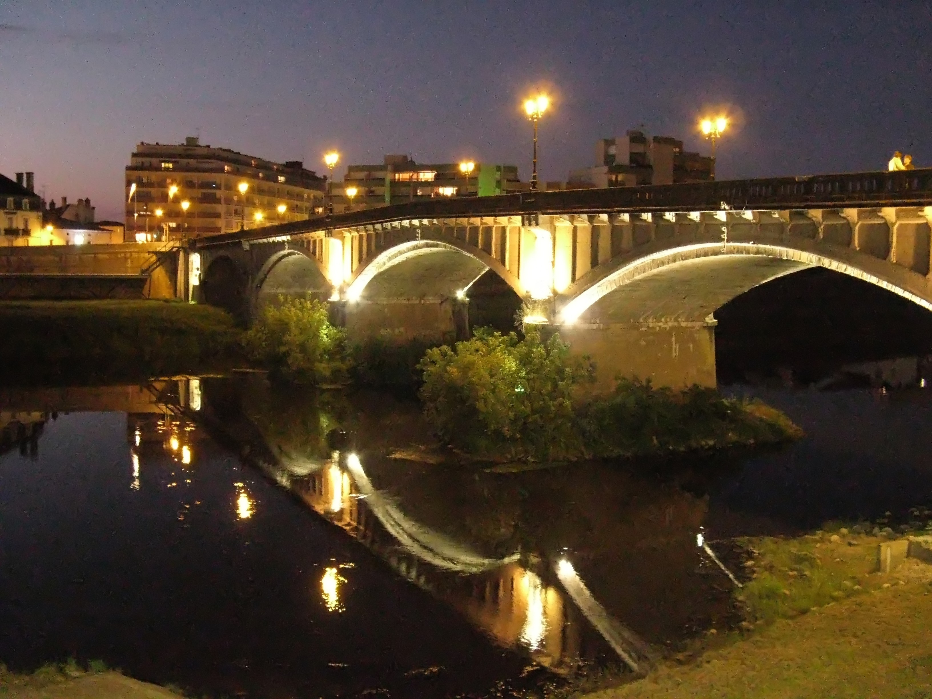 One of the bridges in Dax by night (the noise has been filtered twice throught Noiseware)